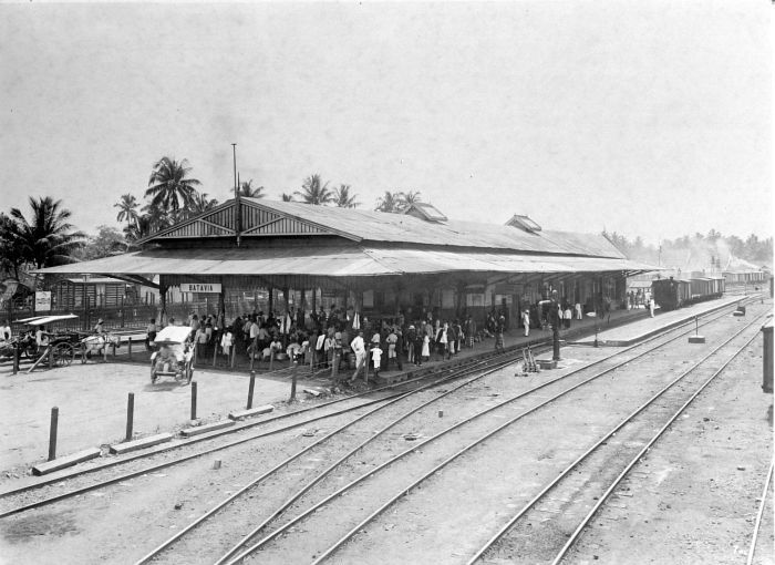 The railway station Batavia South, West-Java.